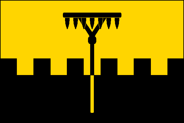 Municipal flag of Žlutice town, Karlovy Vary District, Czech Republic.